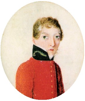 Miniature portrait of James Barry, painted between 1813 and 1816, before his first posting abroad.